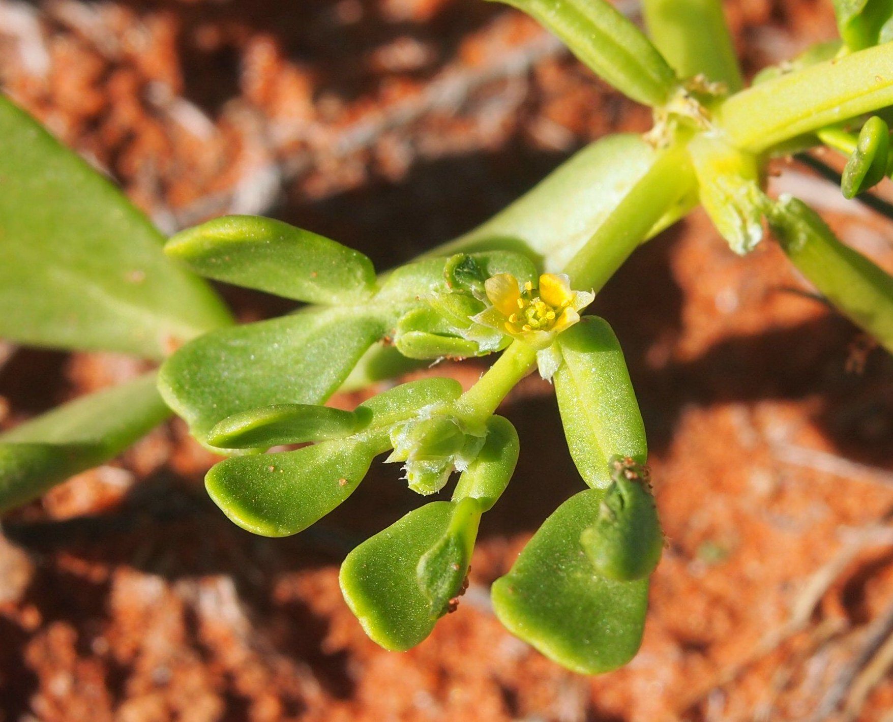 Zygophyllum prismatothecum flower and foliage